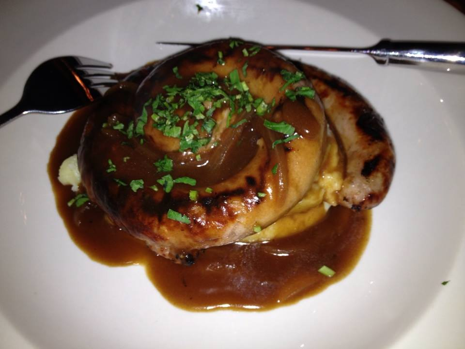 Irish pork sausage with mashed potato.